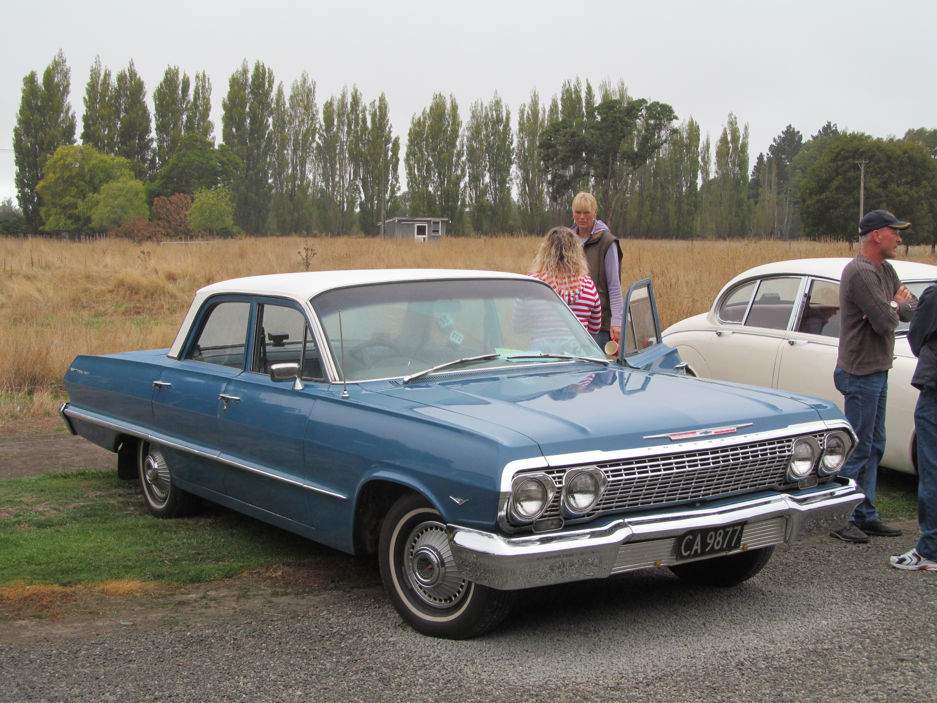 A beautiful original old Yank Tank here, and one sold new in New Zealand too. By the mid 1960s big American cars were no longer as popular here as they used to be, as the Aussies like the Holden, Ford Falcon and Chrysler Valiant became more accessible and probably cheaper too.